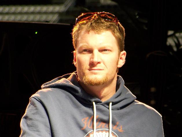 Photo of Dale Jr taken at the Preason Thunder Fan Fest at Daytona, Florida. Photo by Stevejk. Photo uploaded to flickr on Jan 13th, 2007.